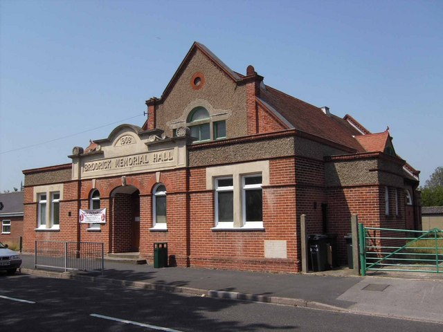 Brodrick Memorial Hall Situated in Clayhall Road.